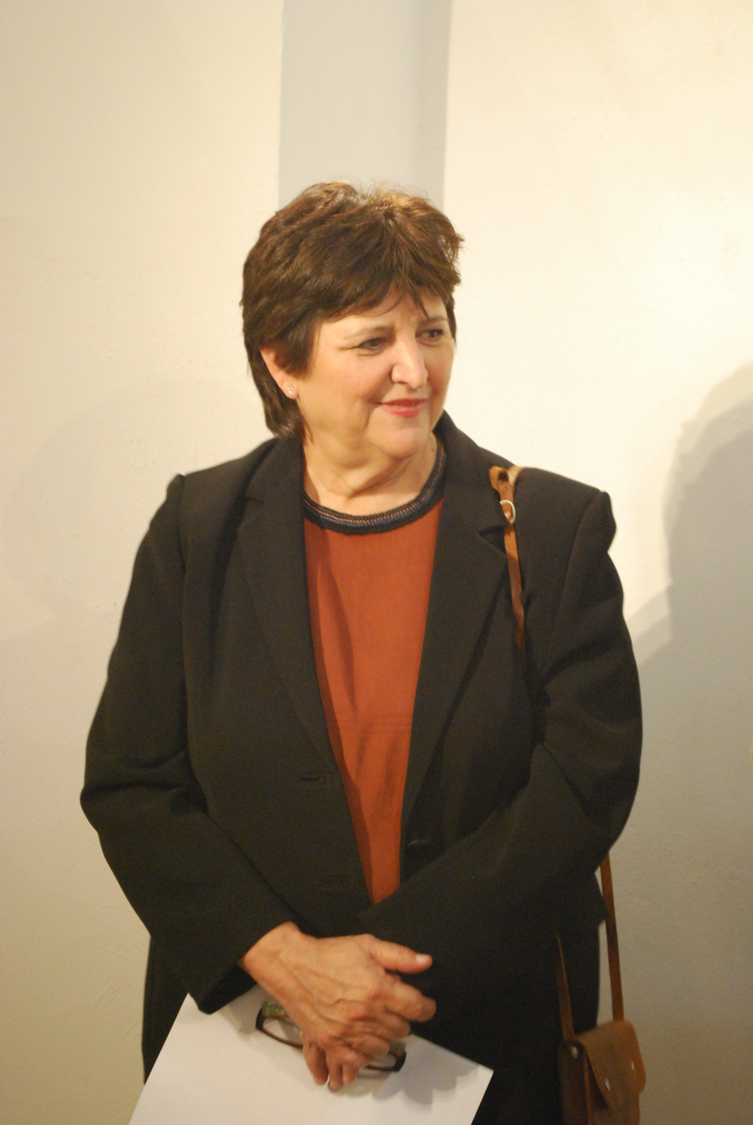 Blanca Charolet Lopez at the Musica y Tradiciones event at the Salon de la Plastica Mexicana